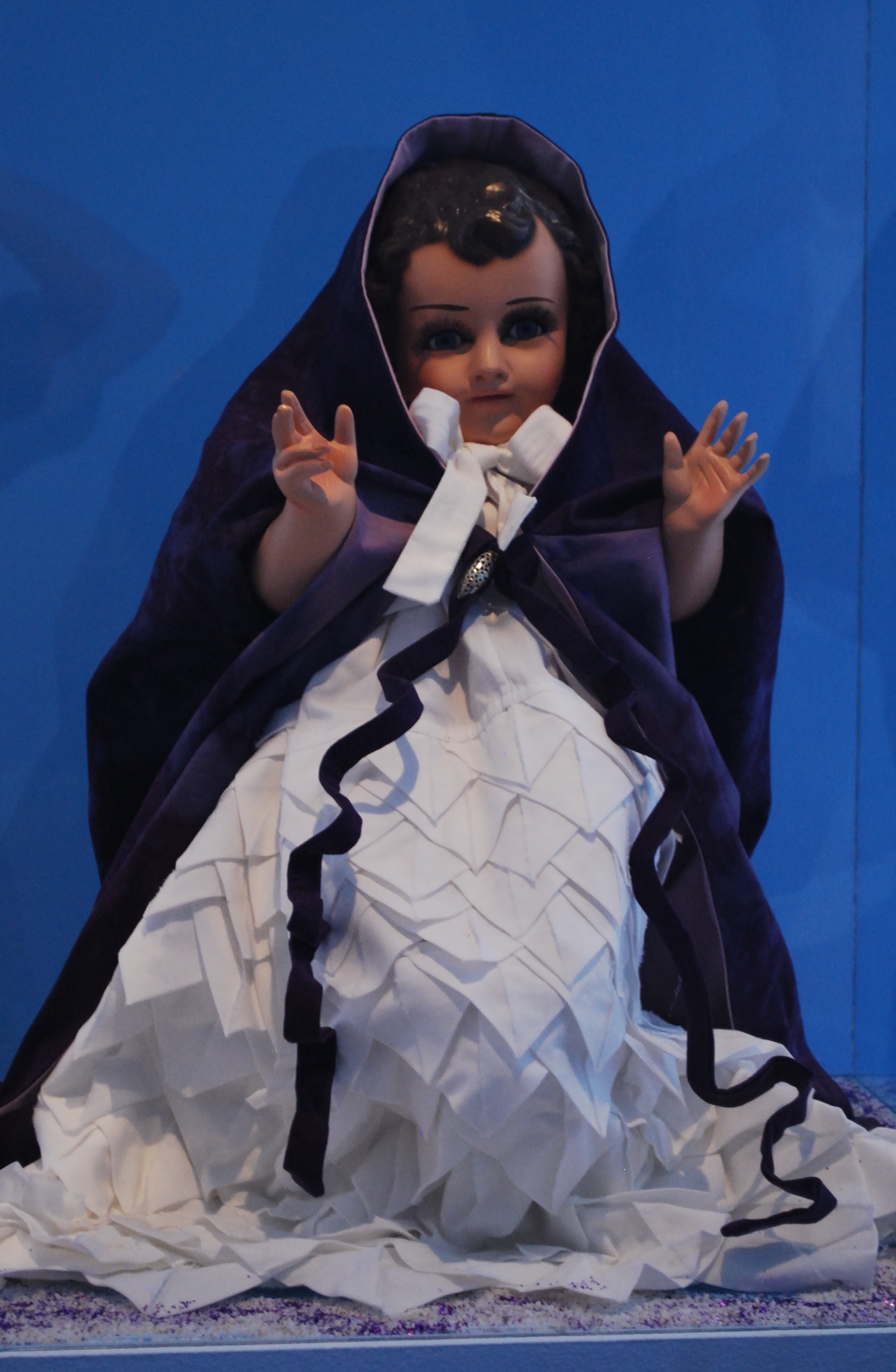 Niño Dios image with garment made by Daniel Andrade at the Museo Nacional de Culturas Populares in Mexico City